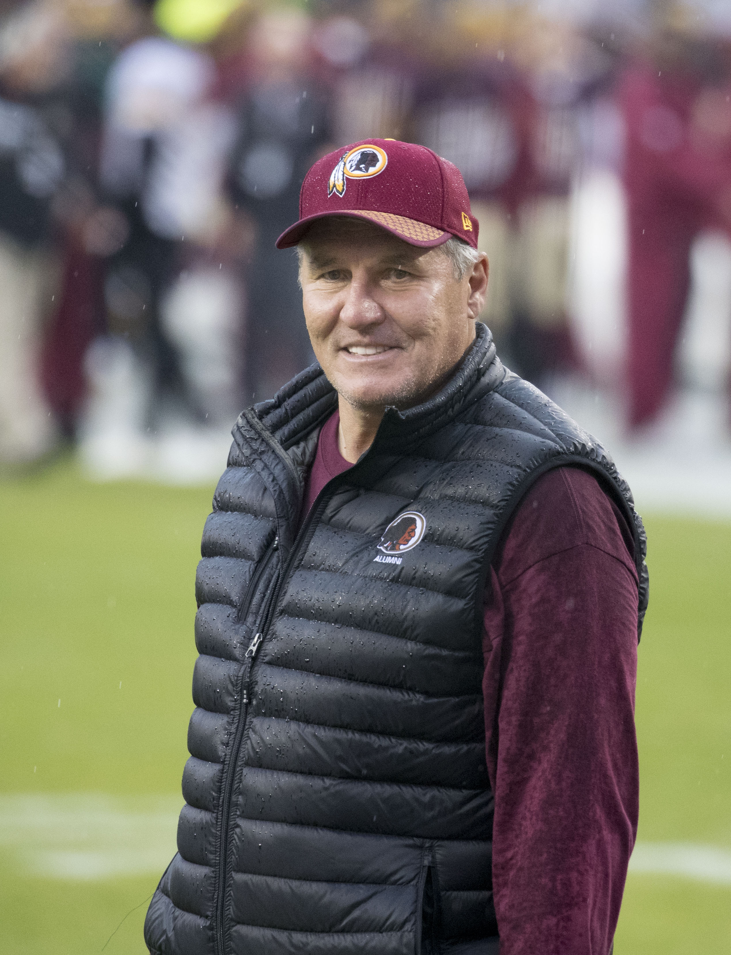 Cowboys at Redskins 10/29/17